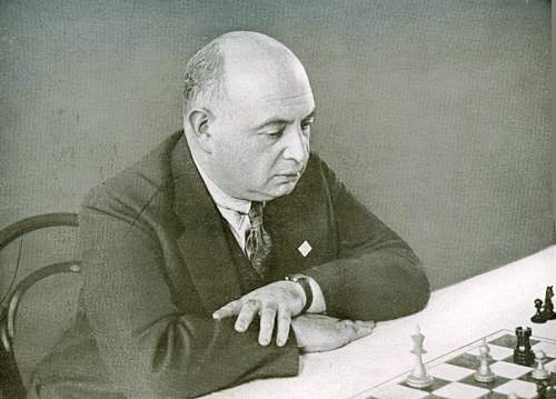 Portrait of Dawid Przepiórka (22.12.1880-??.04.1940), a Polish chess player, chess composer and mathematician